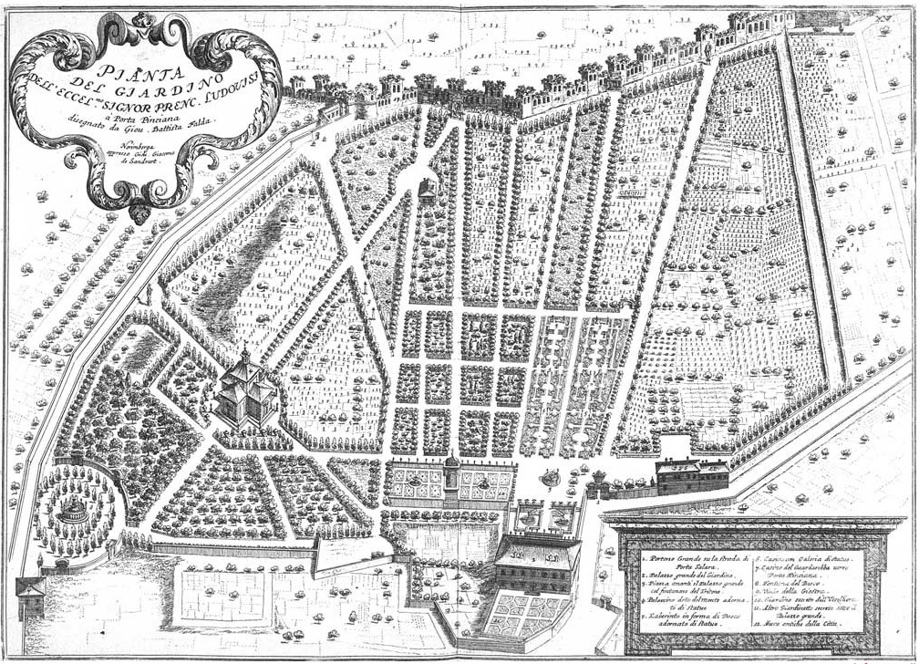 Map of Ludovisi Gardens by Giovanni Battista Falda (1683)